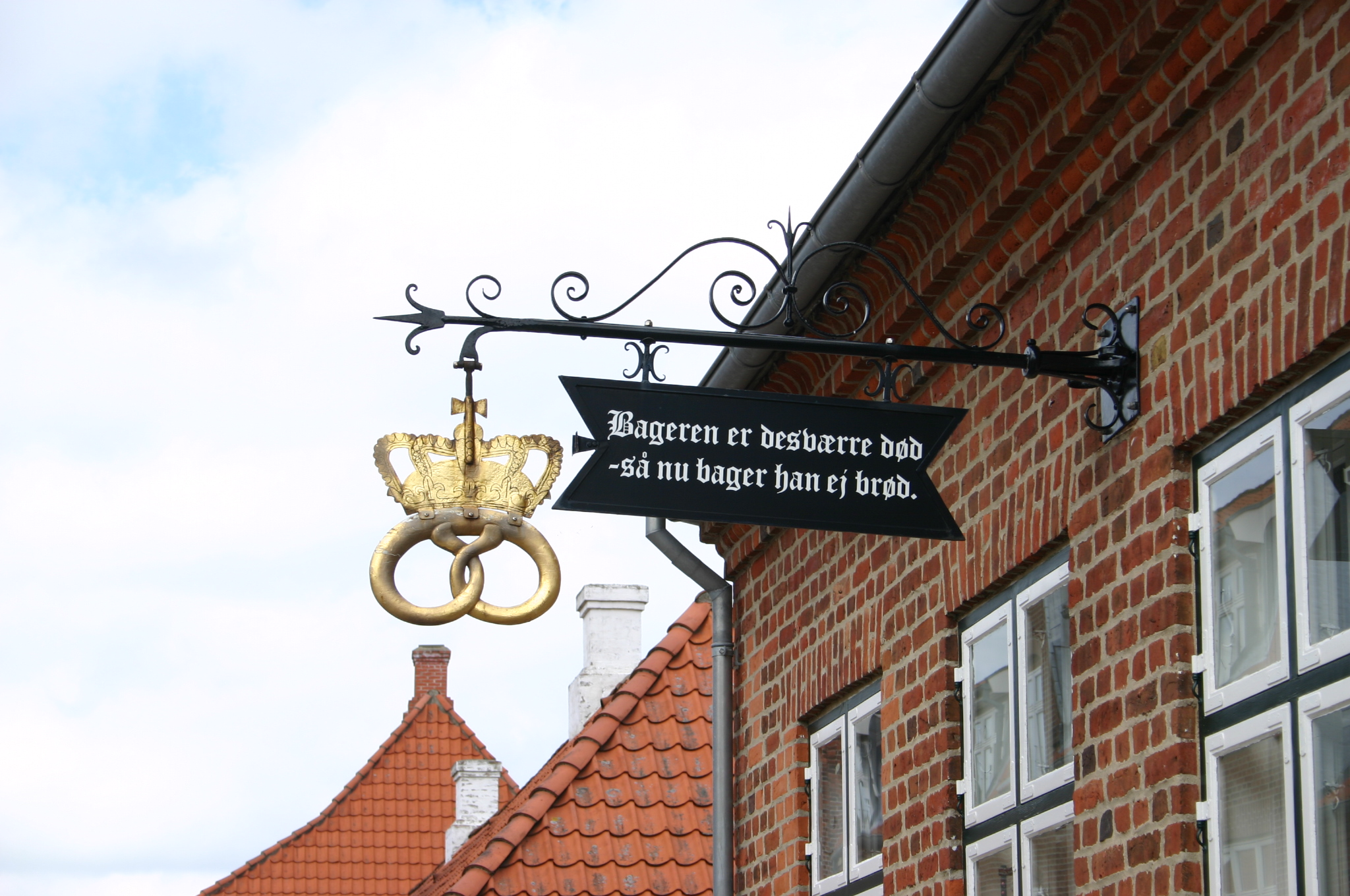 Shop sign at a former bakers shop, Viborg, Denmark. The sign says: Unfortunately the baker is dead, therefore he is´nt any longer making bread.